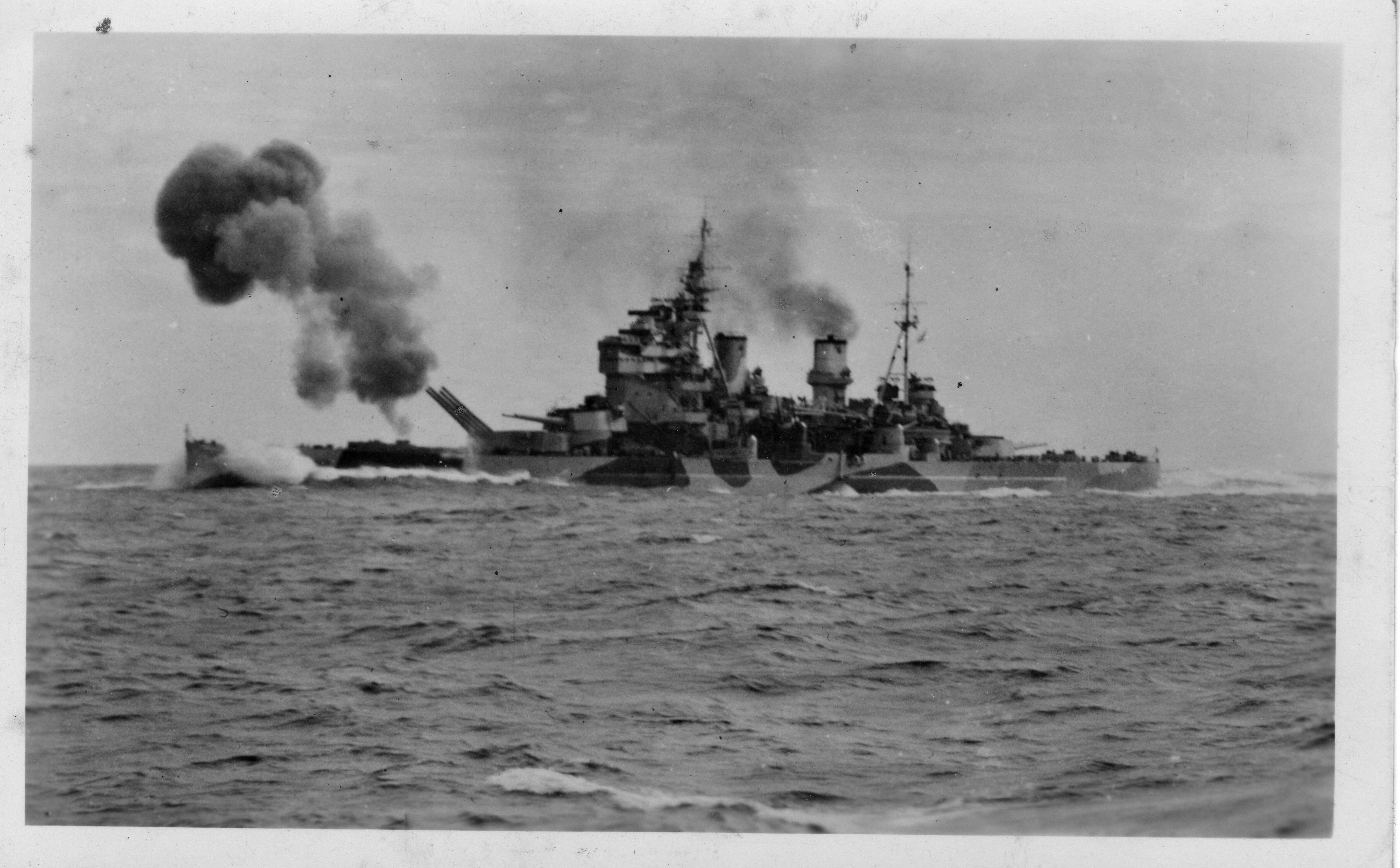 The Royal Navy battleship HMS Anson (79) firing her guns during passing out trials in the North Sea.